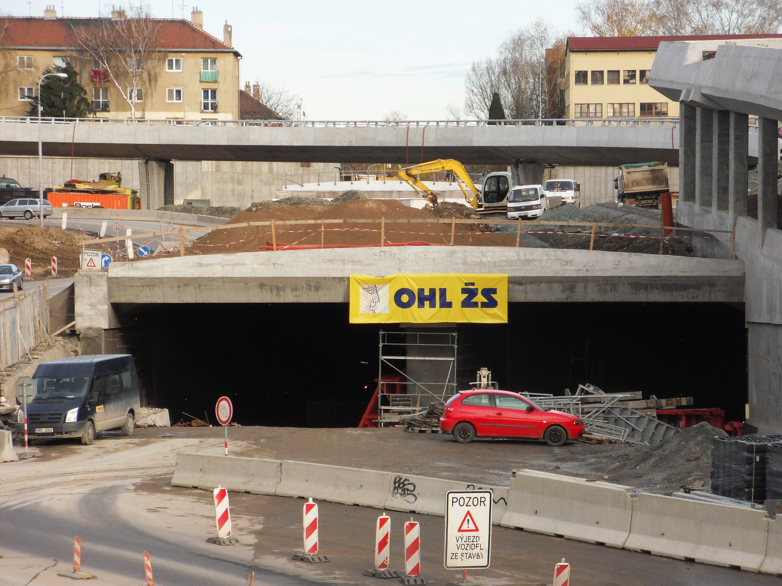 Construction of Královo Pole Tunnel with crossing Žabovřeská and Hradecká street, Brno, Czech Republic